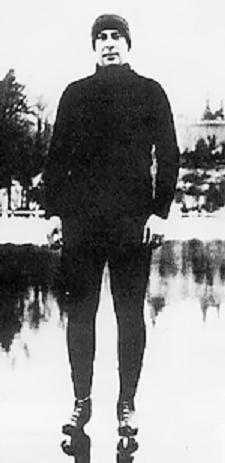 Estonian speed skater Aleksander Mitt in the 1936 Winter Olympics in Garmisch-Partenkirchen.